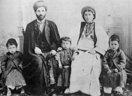 I, Charles Ayoub, own the image and release it to the Public Domain. It was also featured in the book 'Ramallah - Anicent and Modern' by Khalil Ayub Abu Rayya. The picture was taken in 1905 of a family from Ramallah, Palestine. From left to right - Abraham Ayoub, Michael Ayoub, Peter Ayoub, Tifaha Ayoub, Louis Ayoub. Category:Palestinian history Category:Cities in the West Bank